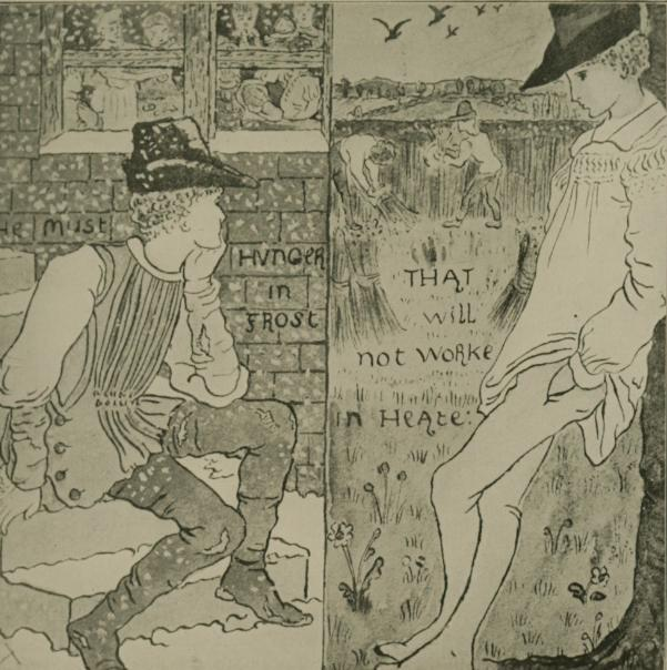 Book illustration